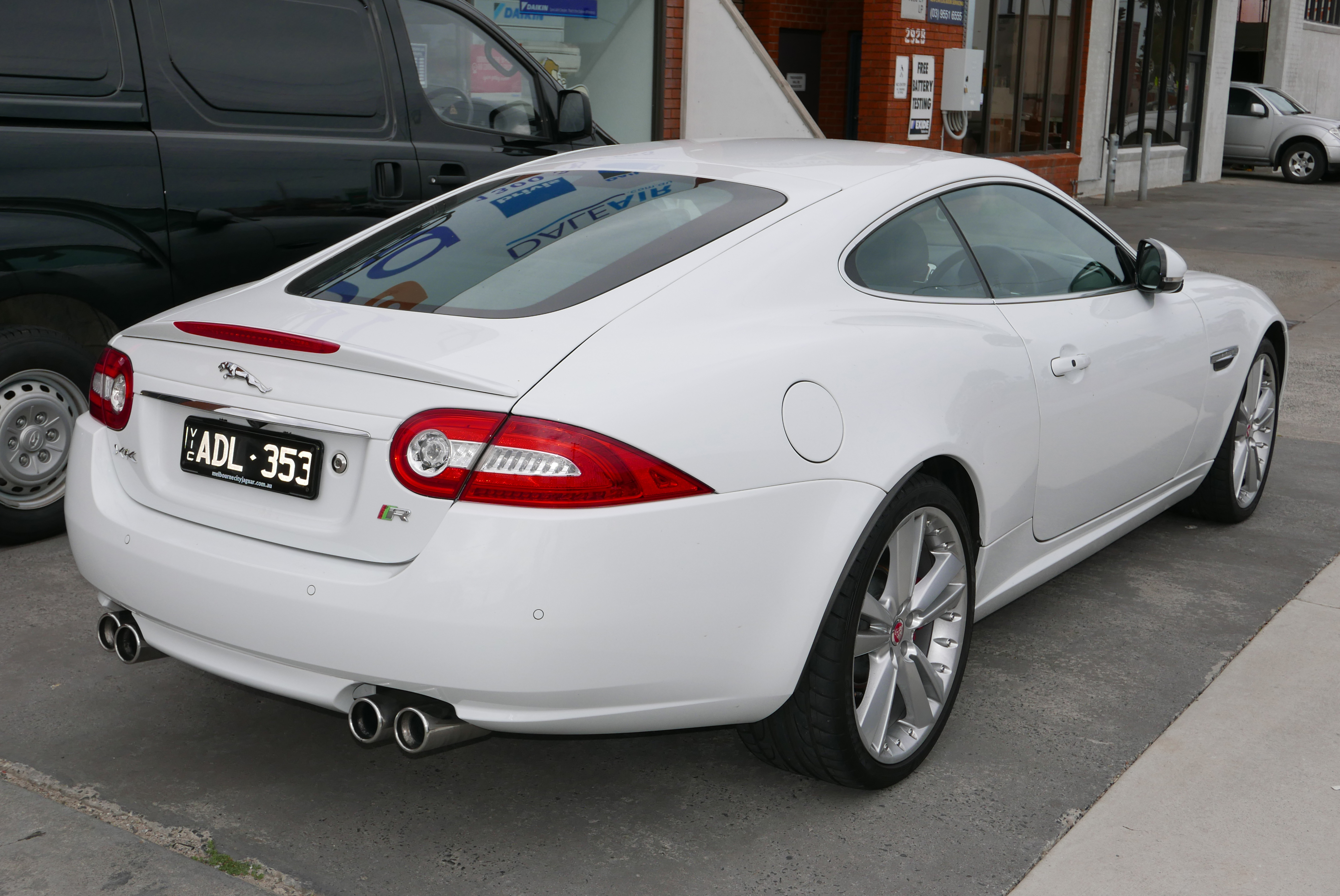 2014 Jaguar XKR (X150 MY15) coupe. Photographed in Dingley Village, Victoria, Australia. Vehicle registration enquiry results Jurisdiction Victoria Registration ADL353 Chassis code SAJAC43R2EMB54193 Engine code 13110504512508PS Compliance date 2014-04 Year of manufacture 2014